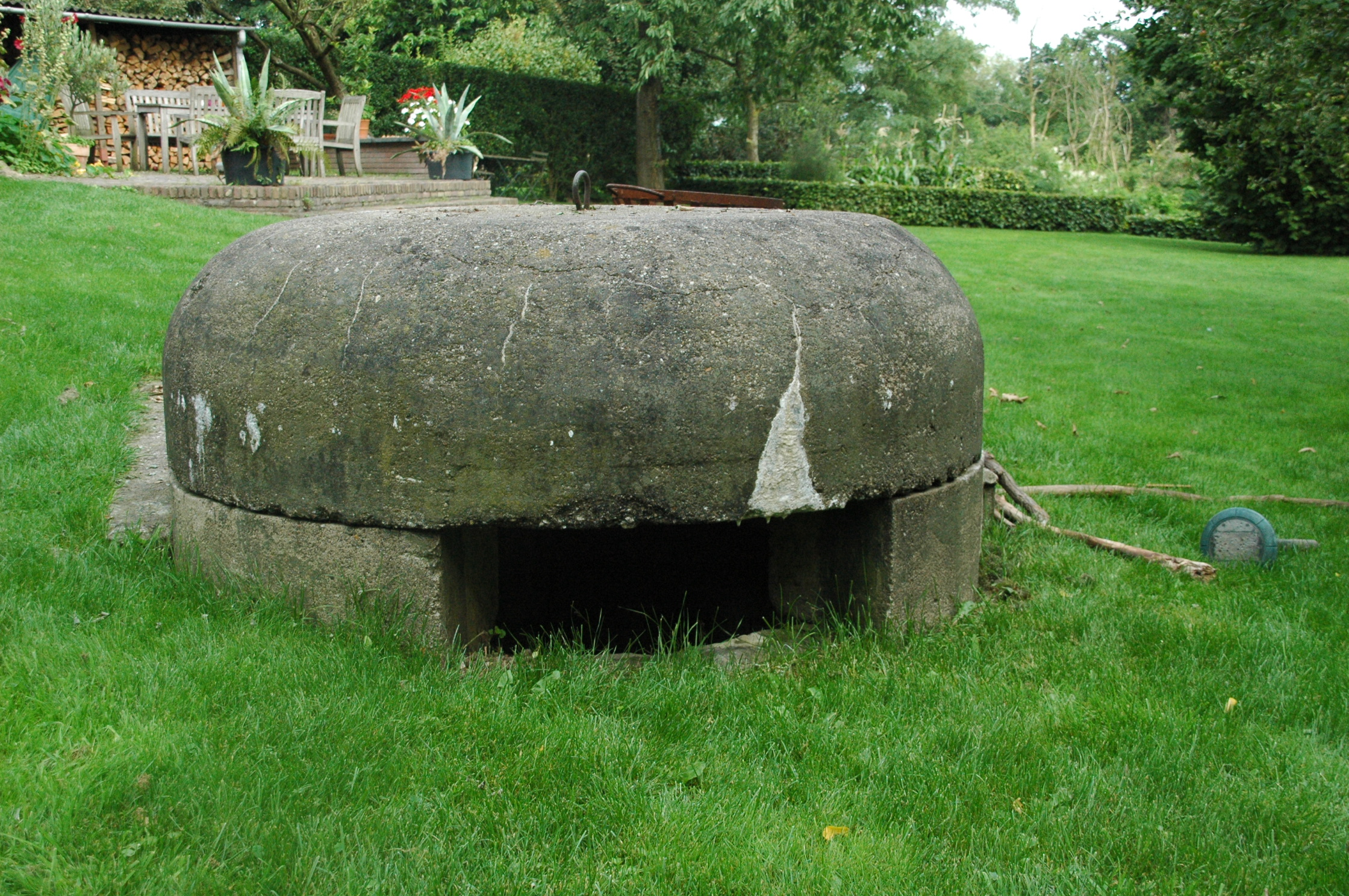 Small bunker of Pantherstellung in Renkum